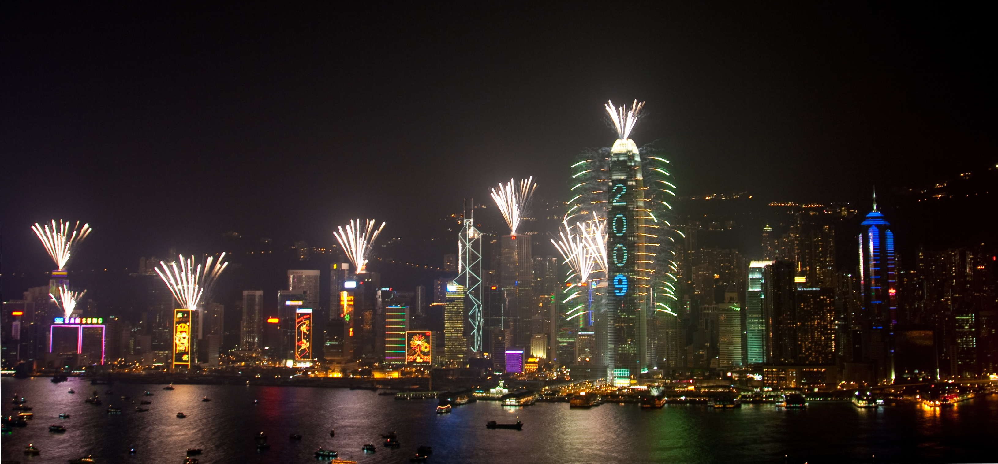 IFC Countdown Spectacular in 2009香港國際金融中心除夕倒數 (2009年)